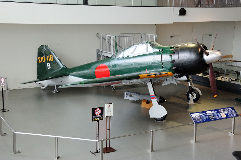 Mitsubishi A6M7 ZERO Model62 in YAMATO Museum. Kure Hiroshima Japan